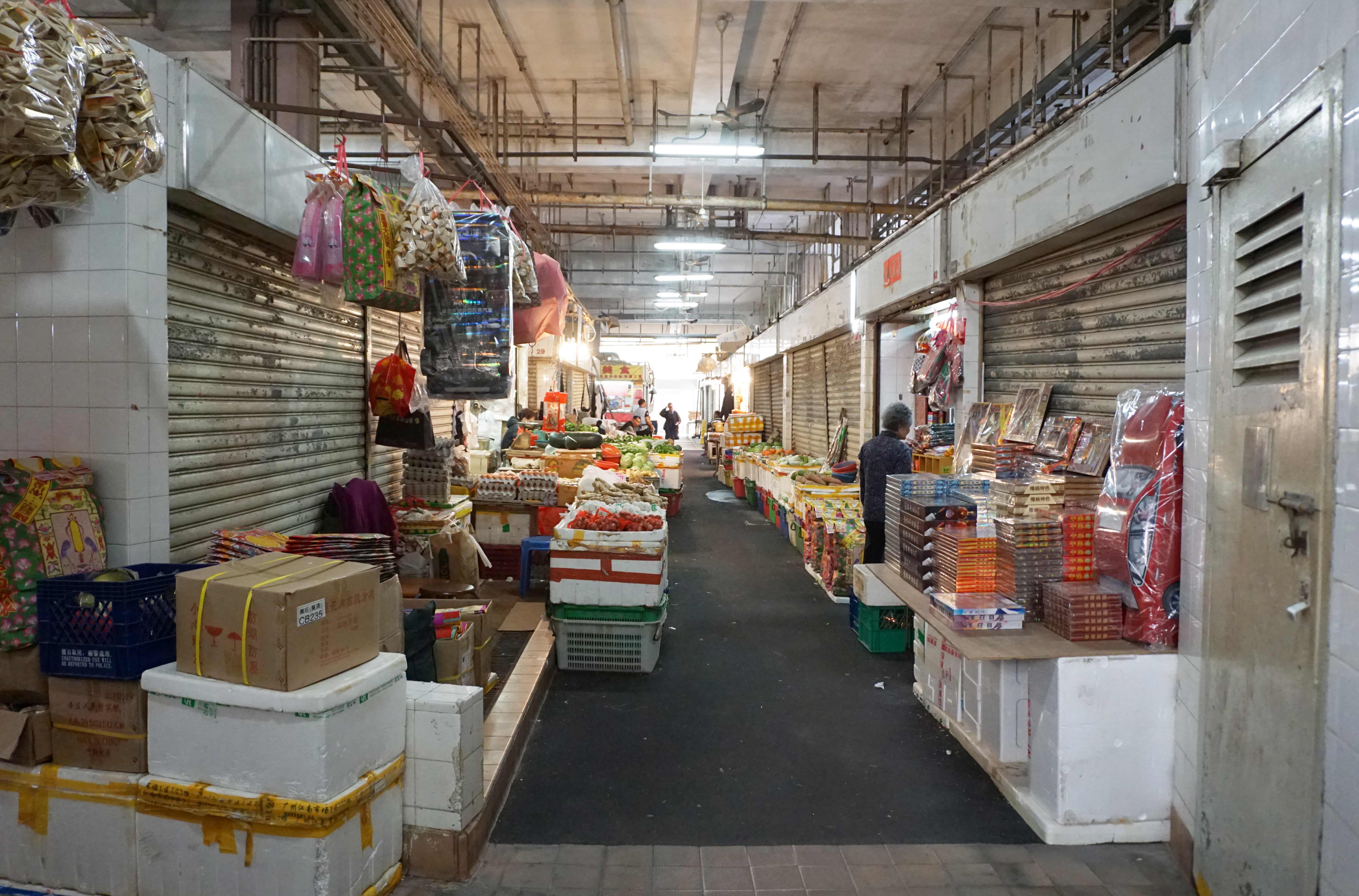 On Yam Market in Shek Yam, Hong Kong.